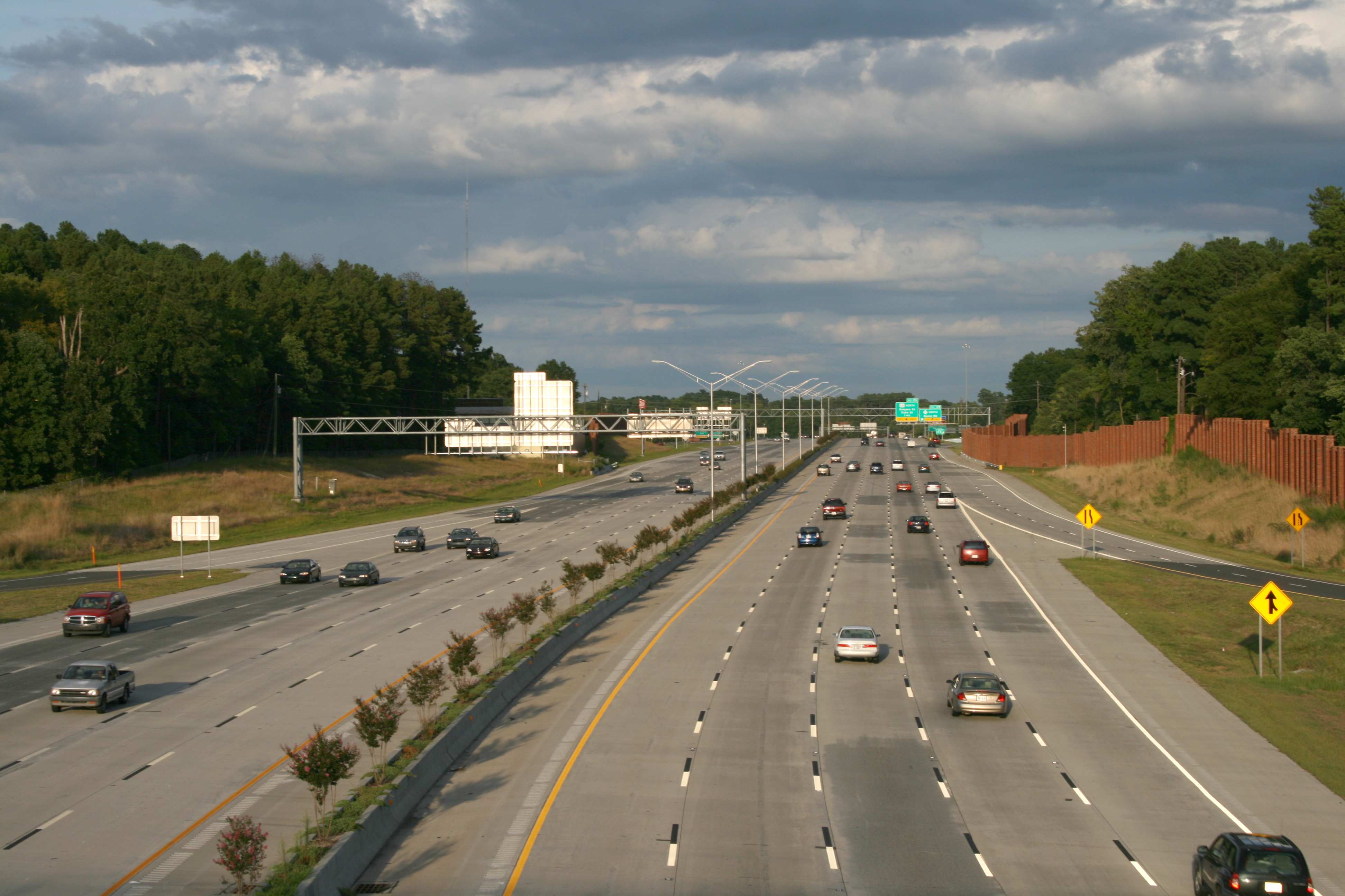 Interstate 85 northbound viewed from the Hillandale Road overpass in the evening in Durham, North Carolina.